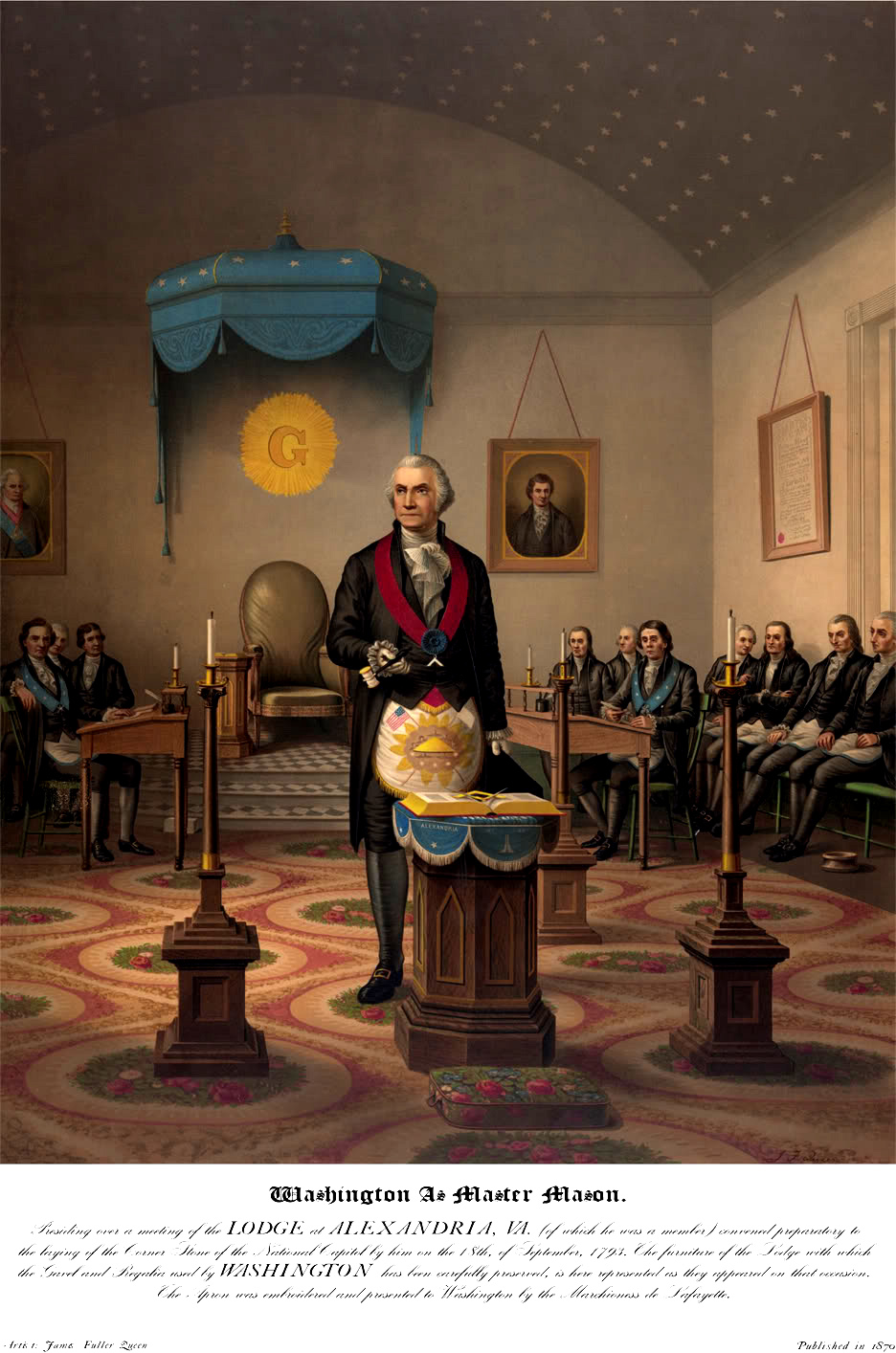 Print of "Washington As Master Mason." Description per seller, "shows U. S. President George Washington presiding over a meeting of the Lodge of the Alexandria, Virginia Masonic Lodge. This meeting prepared the lodge to lay the cornerstone for the United States Capitol on September 18, 1793. "President Washington wears the full regalia of his Master Mason degree including the famous Masonic apron made for him by Marchioness de Lafayette, the wife of Marquis de Lafayette, also a Mason. The apron, one of two given by the Marchioness, still exists. President Washington holds a gavel in his right hand. He stands before a stand holding an open Bible with a square and compass on it."